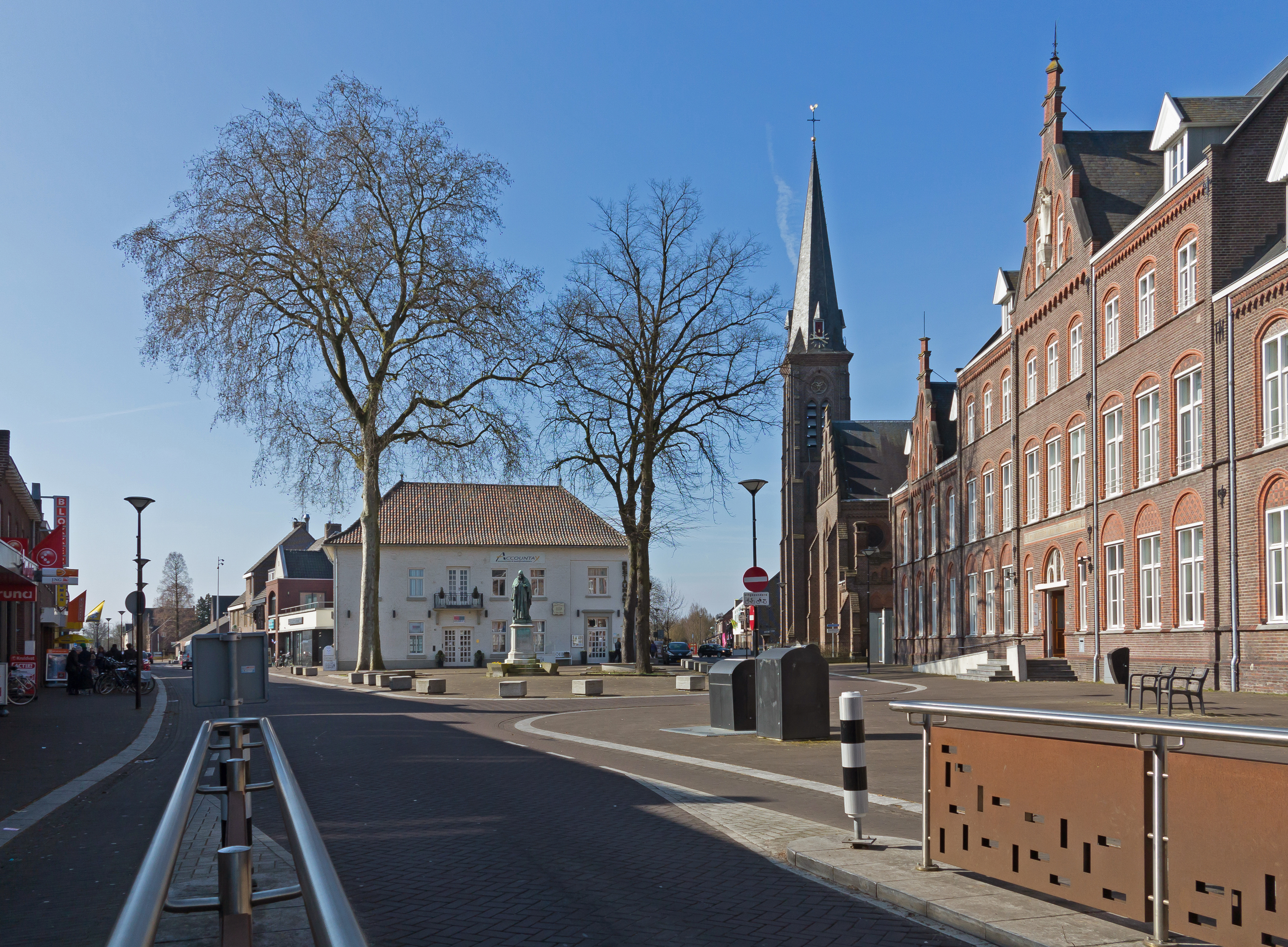 Reuver, church: de Sint Lambertuskerk